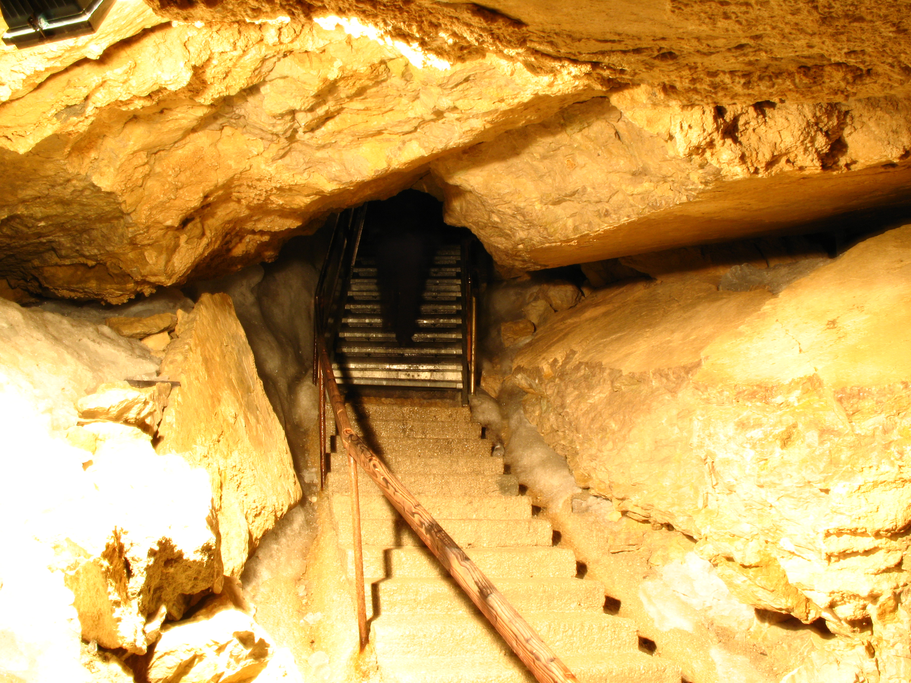 Giant Ice Caves, Dachstein, Austria